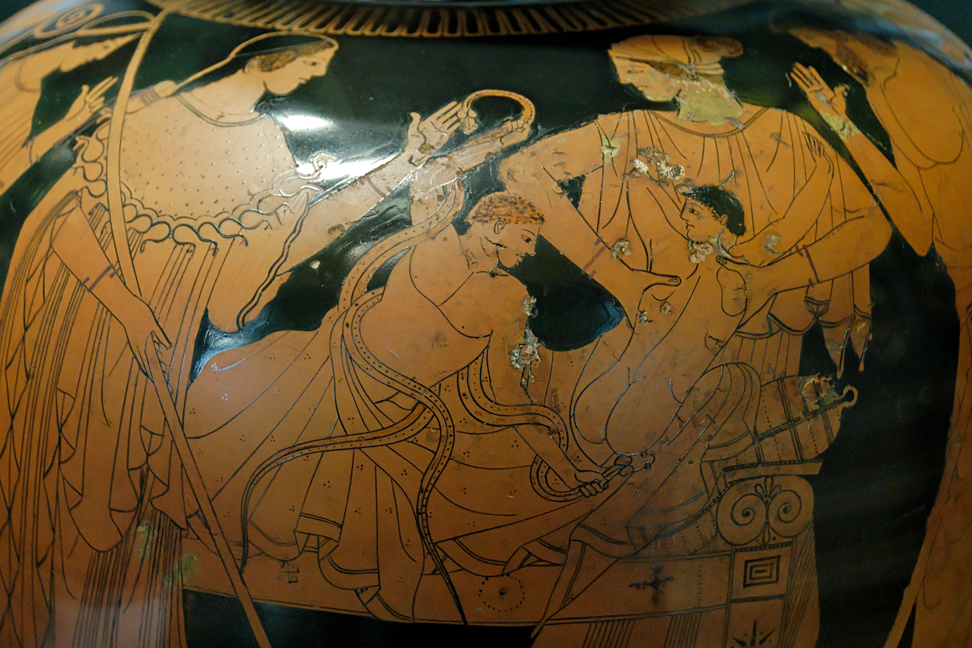 The infant Herakles strangling the snakes sent by the goddess Hera (a woman protects Iphikles on the right). Detail from an Attic red-figured stamnos, ca. 480–470 BC. From Vulci, Etruria.